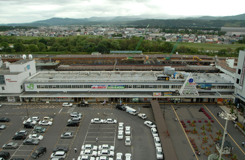 The bird view of Asahikawa Station, one of the most important train stations in central Hokkaido area, Japan. The construction site in the back of the station is for the new elevated station opened around 2010.